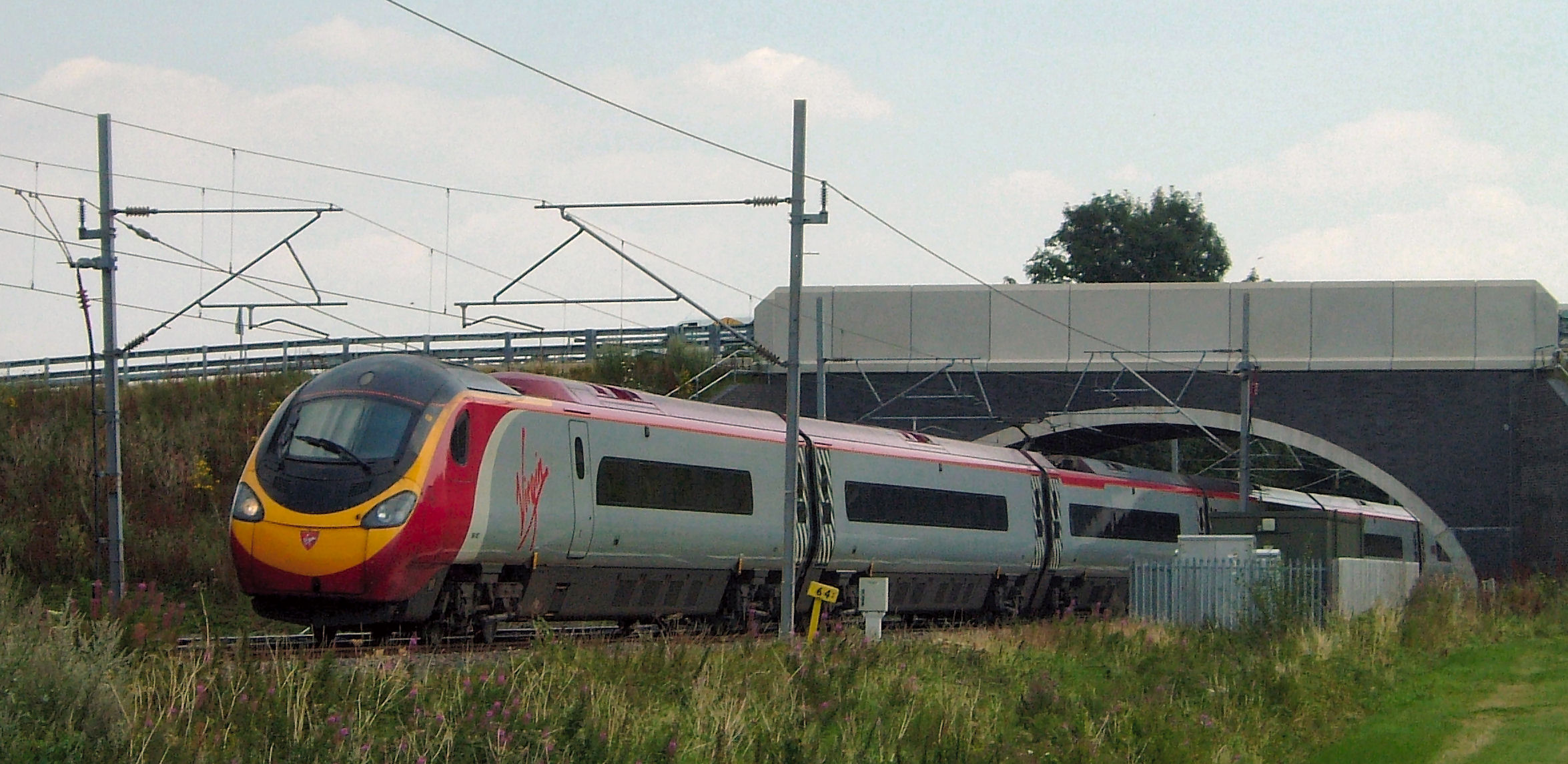 Virgin 'Pendolino' 125 mph train travelling north on the West Coast Main Line from London, Euston towards Scotland, at Banbury Lane, Rothersthorpe, Northants on 10 August 2007